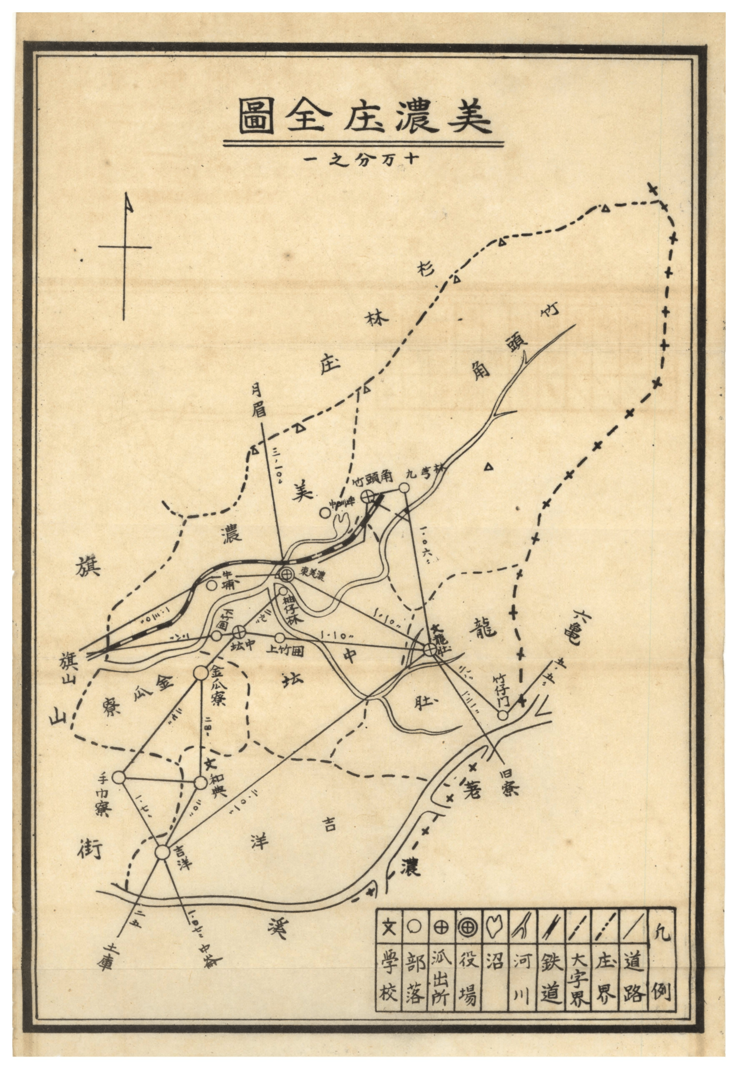 Map of Mino Village, published in 1938